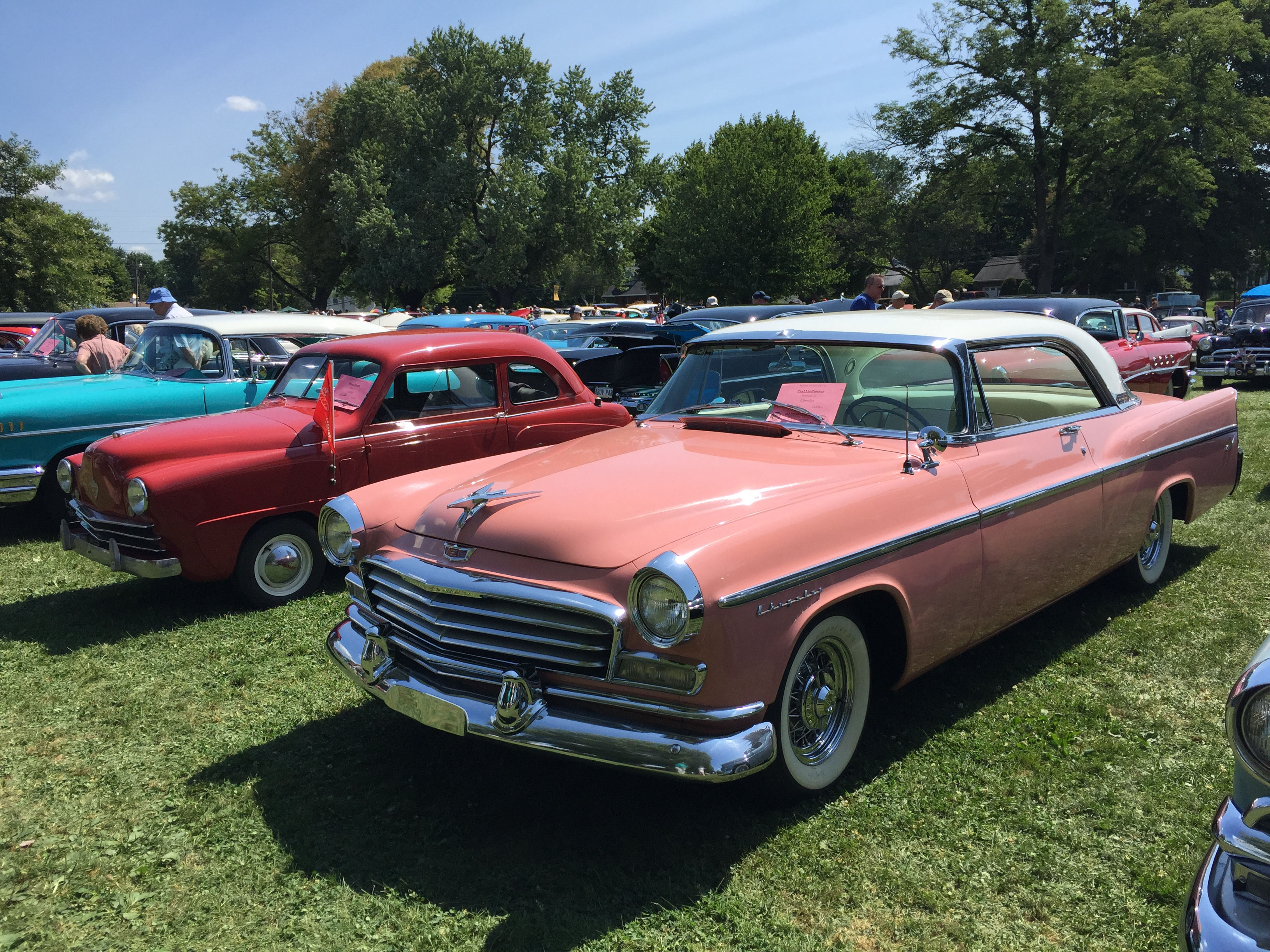 1956 Chrysler Windsor two-door hardtop (no center or B-pillar) finished in "Desert Rose" with a "Cloud White" top. Note; the small red car partially visible in the background is a 1950 Closley sedan. Picture taken at the 52nd Annual "Das Awkscht Fescht" antique car show in Macungie, Pennsylvania.